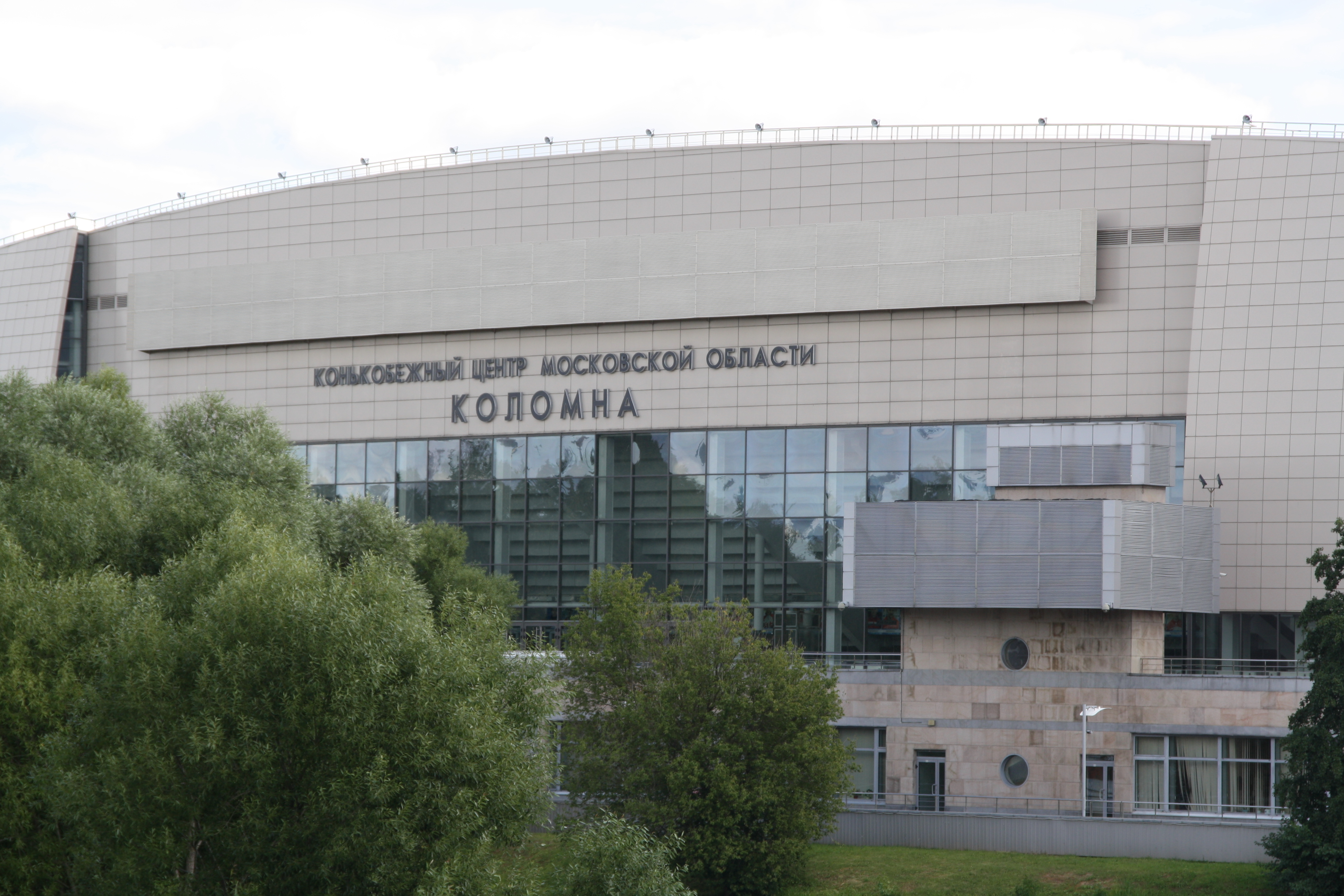 Kolomna Skating Center